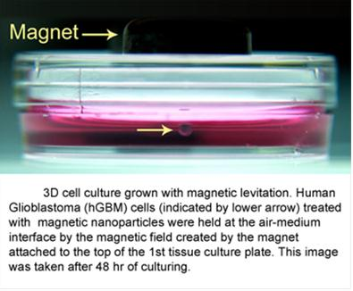 Actual Introduction picture used for 3D Cell culturing by magnetic levitation page.